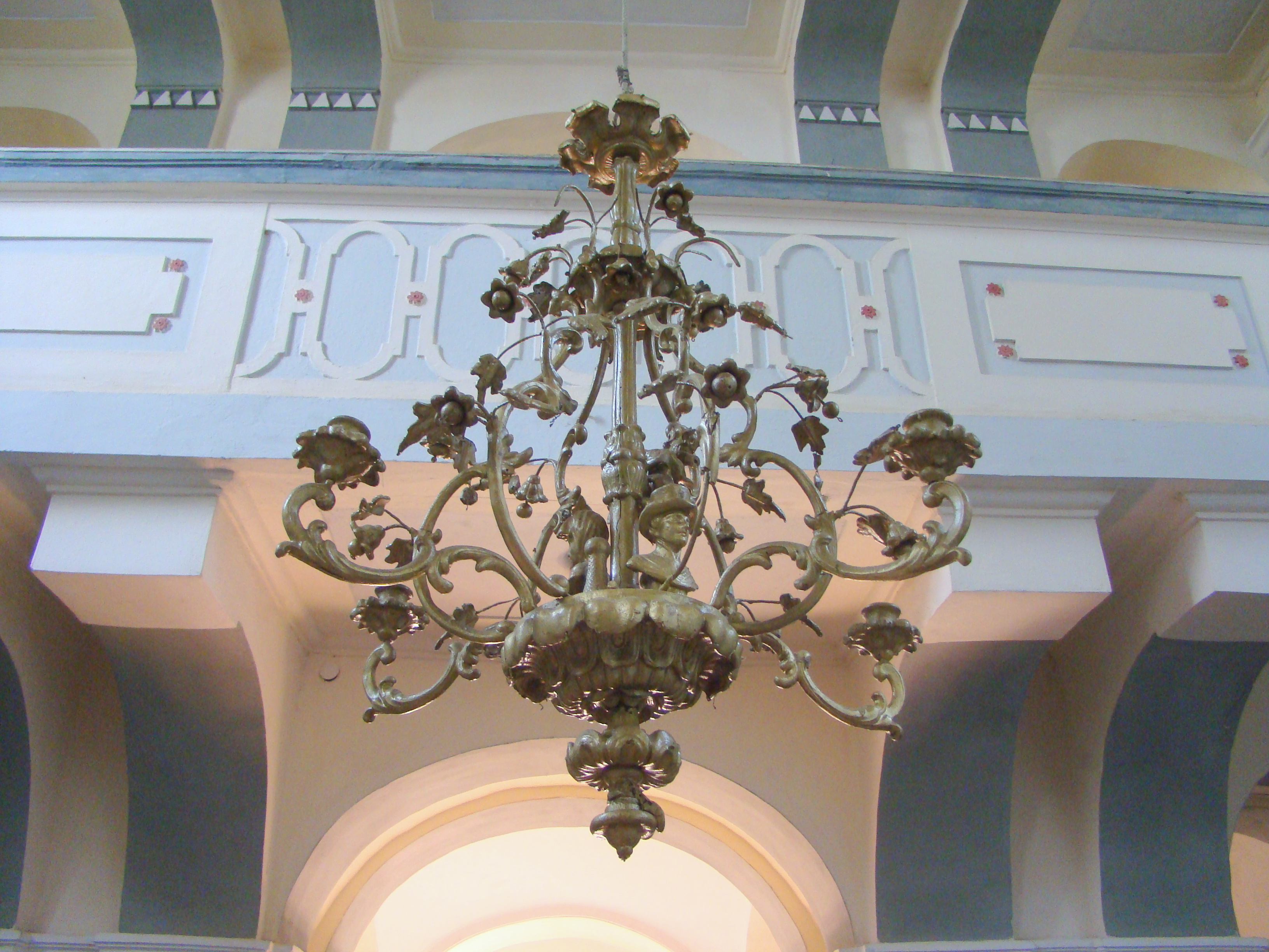 Fortified church in Criț, Brașov county, Romania